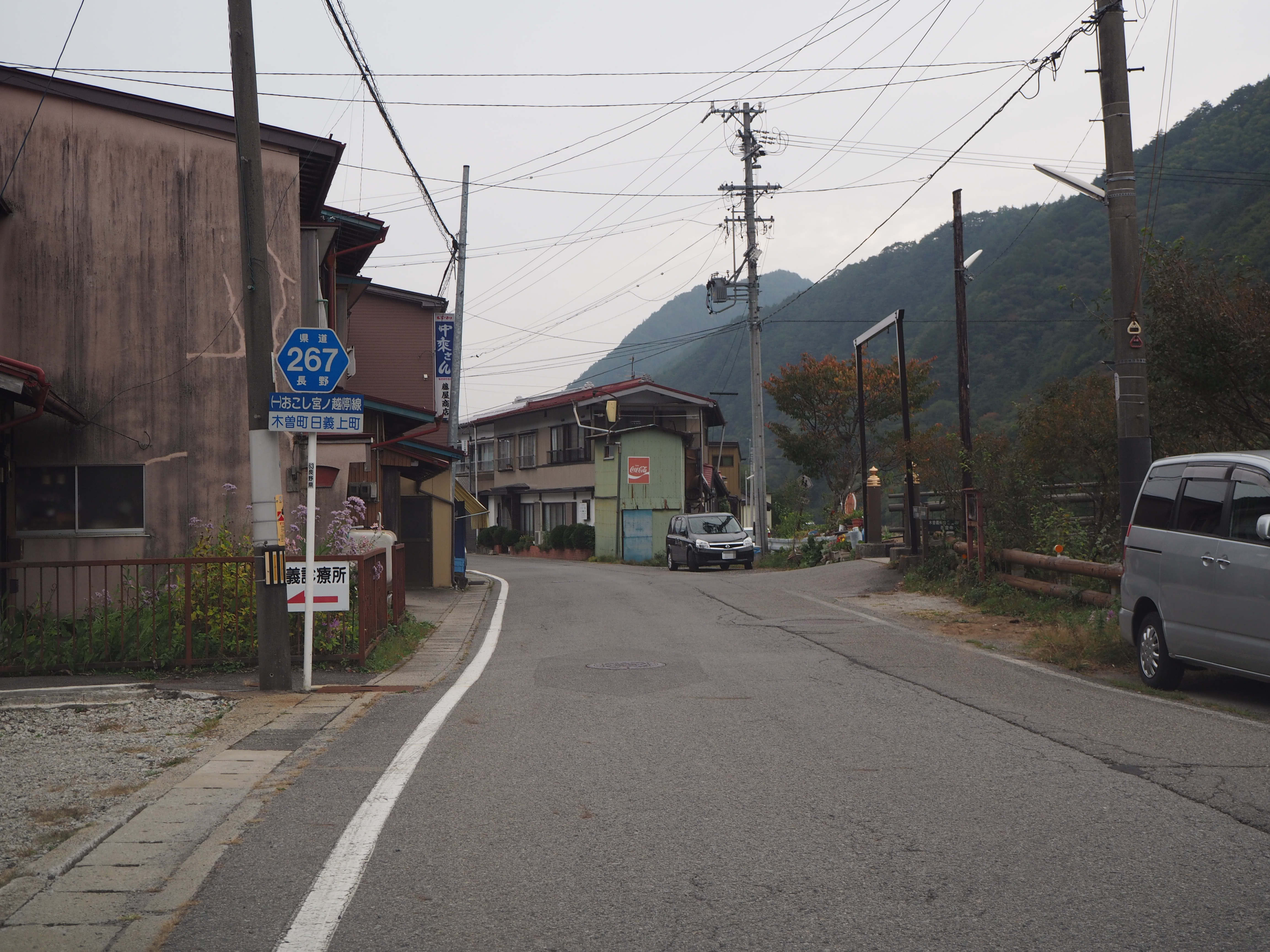 Nagano Prefectural road 267